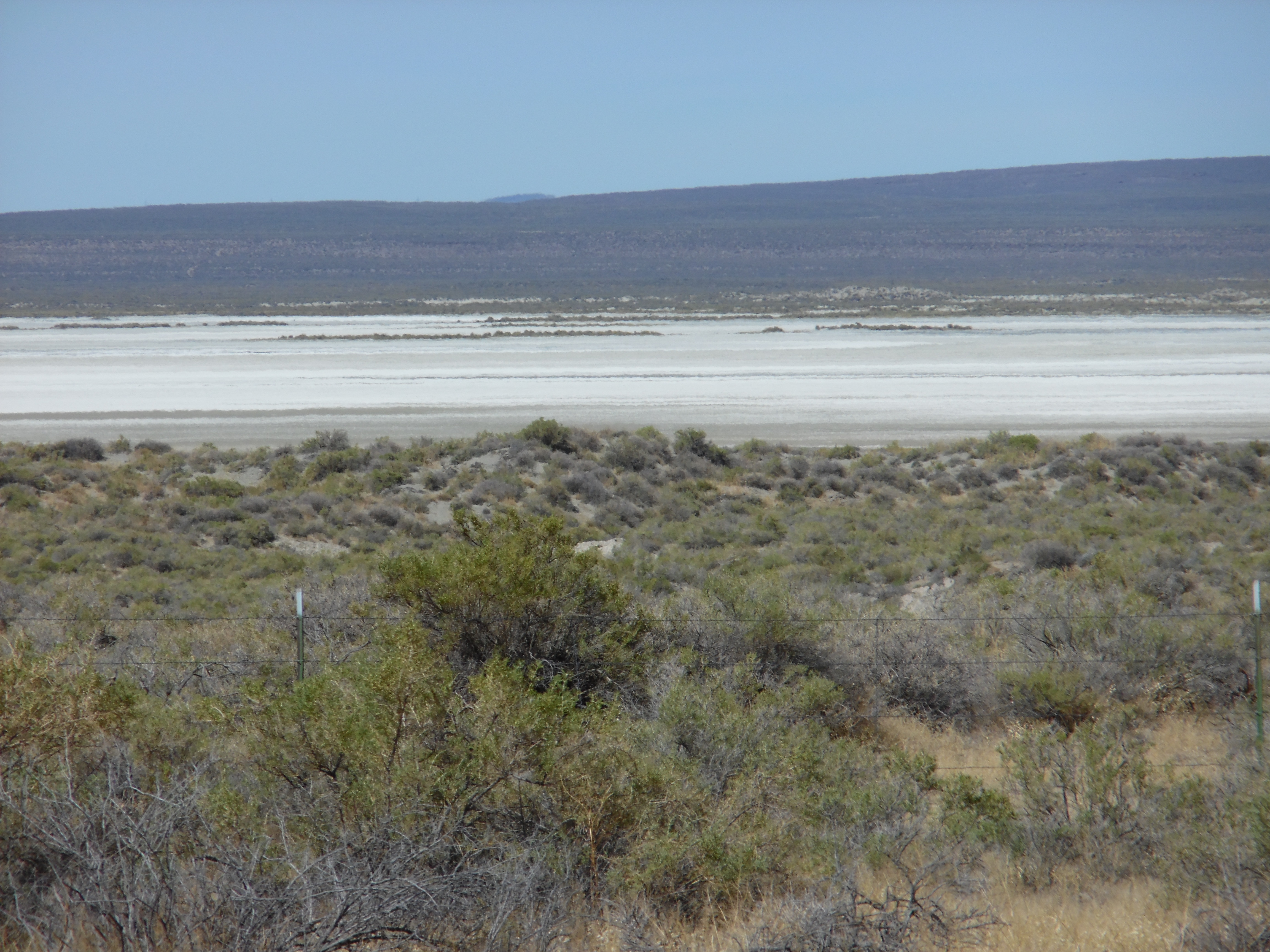 Alkali Lake dry lakebed in northern Lake County, Oregon